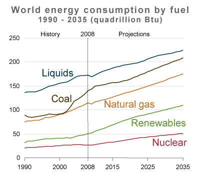 image describes world energy consumption by fuel with projections to 2035 source USDOE EIA IEO 2011